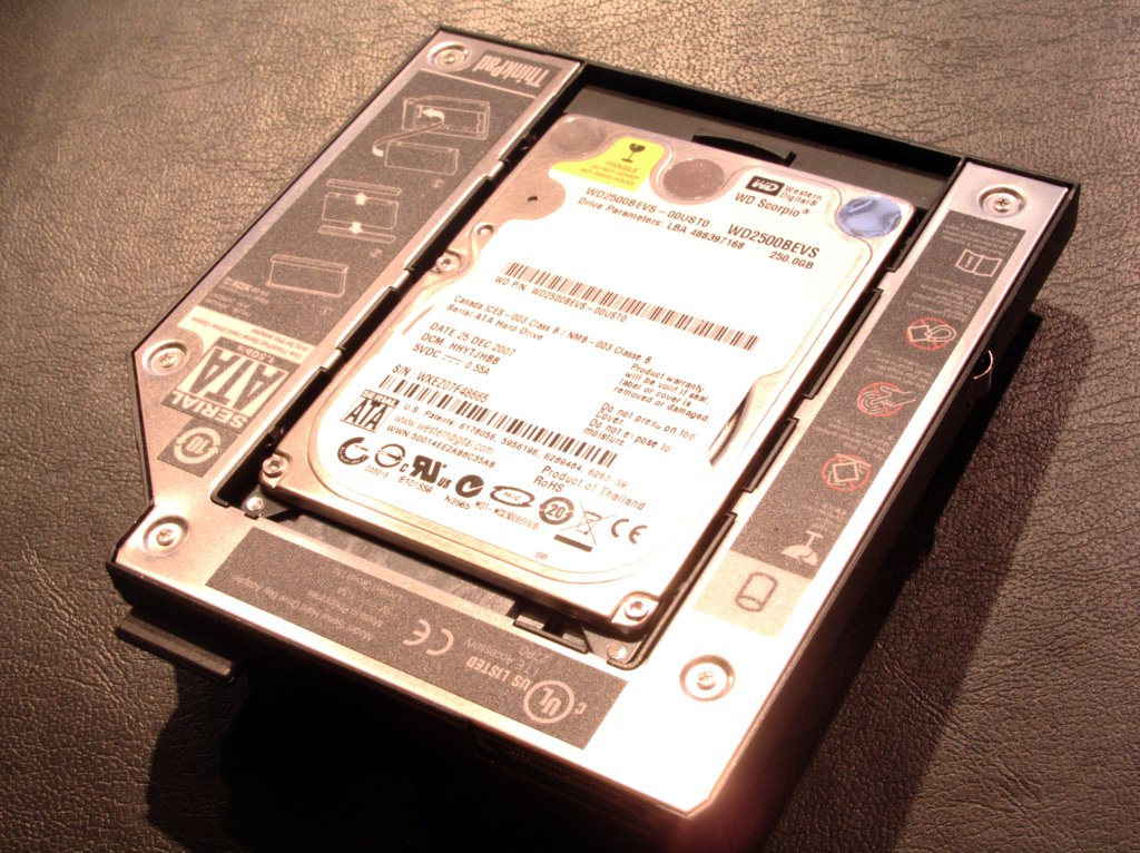 ThinkPad Ultrabay HDD Adapter with Western Digital Scorpia 2500B EVS (250GB)